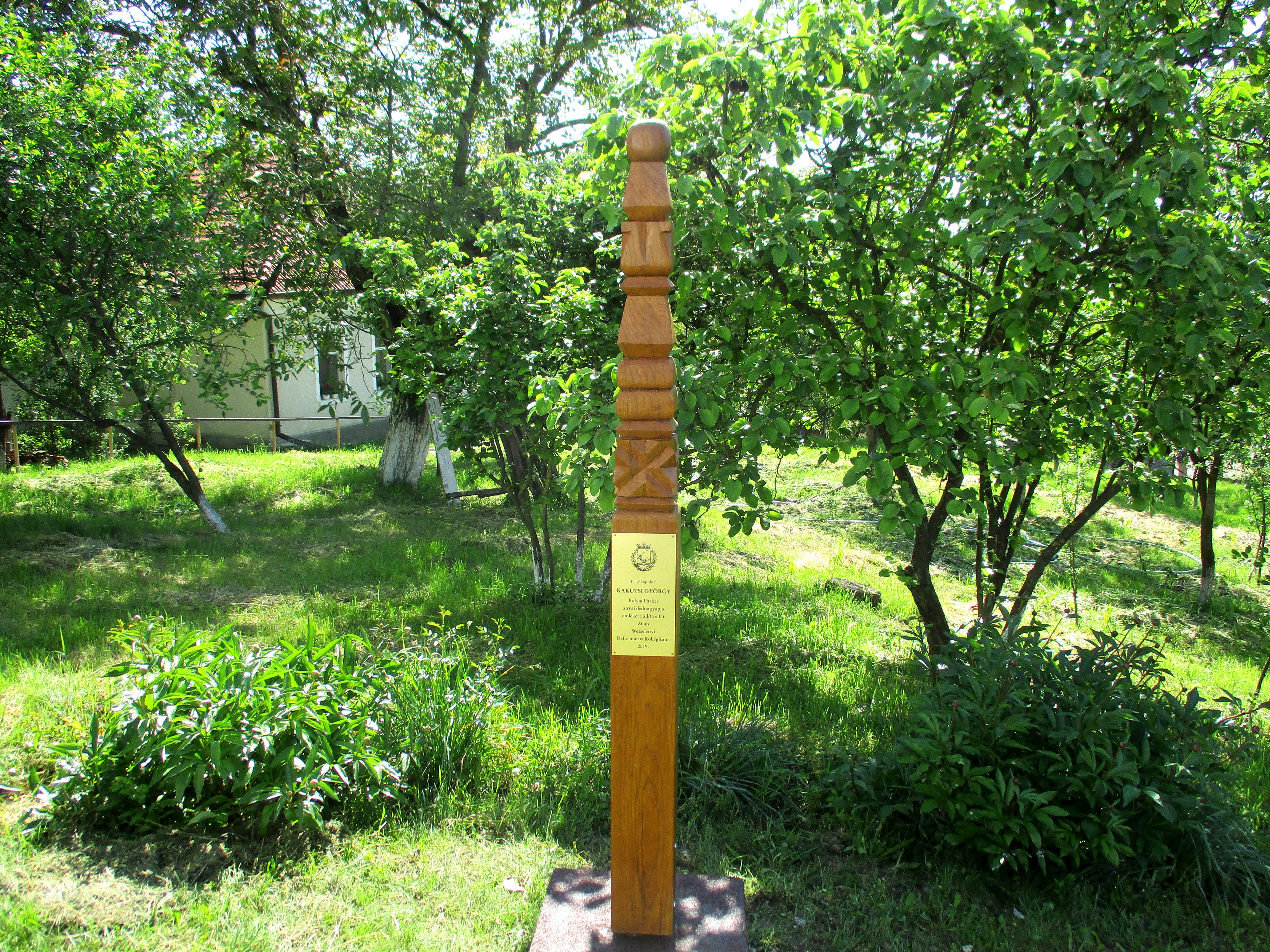 Memorial column to commemorate György Kakutsi, who was the great-grandfather of Farkas Bolyai (Feldioara, Cluj county)